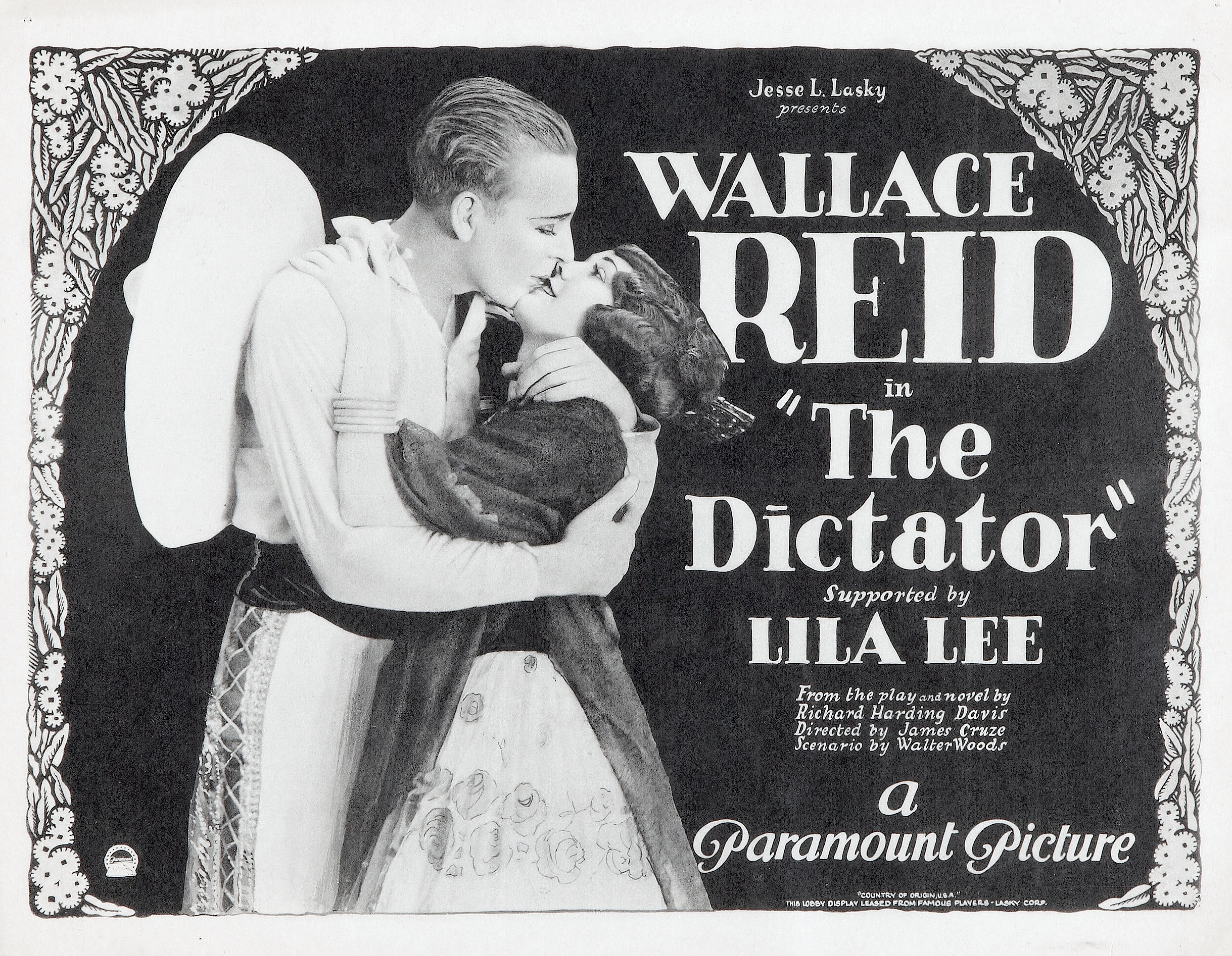 The Dictator is a 1922 silent film comedy drama produced by Famous Players-Lasky and distributed through Paramount Pictures. This is a lobby card for the movie.